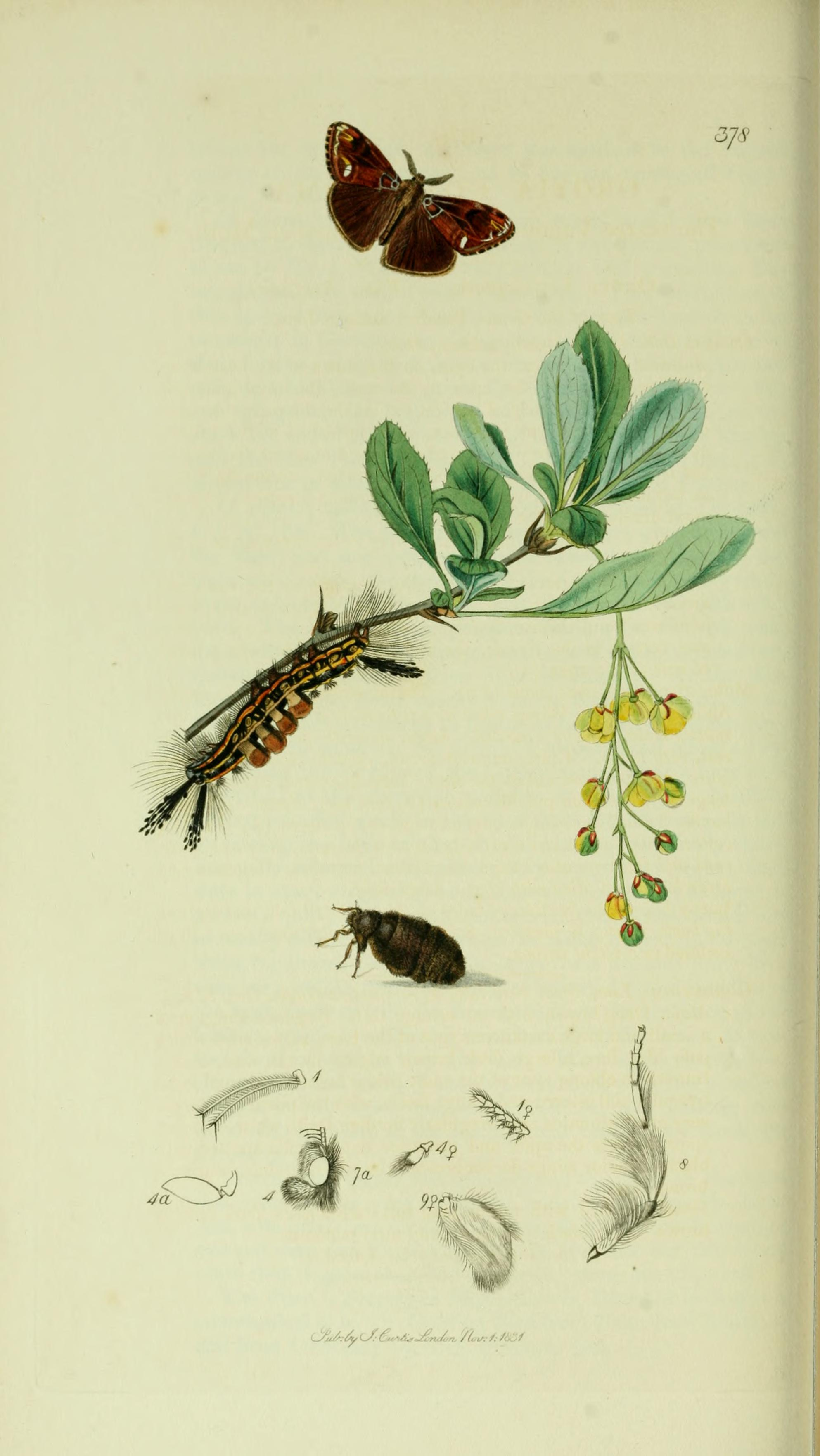 An illustration from British Entomology by John Curtis. Orgyia gonostigma (Scarce Vapourer) Orgyia antiqua?